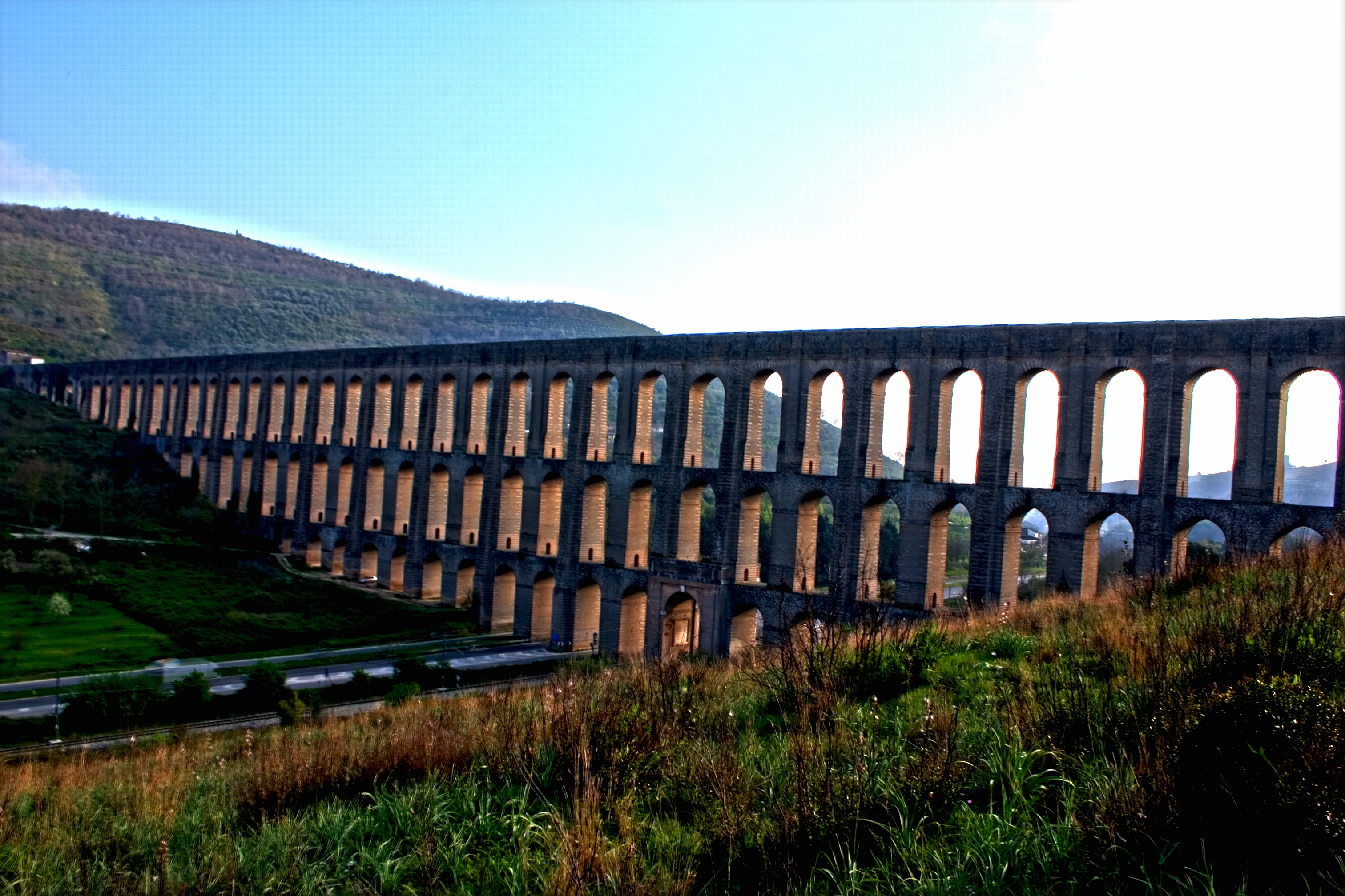 The Carolino Aqueduct and the Bridges of the Maddaloni Valley were built not only to feed the numerous fountains and falls of the Royal Palace of Caserta but most of all to guarantee the new Capital’s water supply and to provide the essential motivity for the silk factories in the near San Leucio . Vanvitelli’s Masterpiece was commissioned in the March 1753 by king Charles III of the Bourbon dynasty to create the extraordinary jet fountains in the gardens of the Royal Palace of Caserta (Italy).